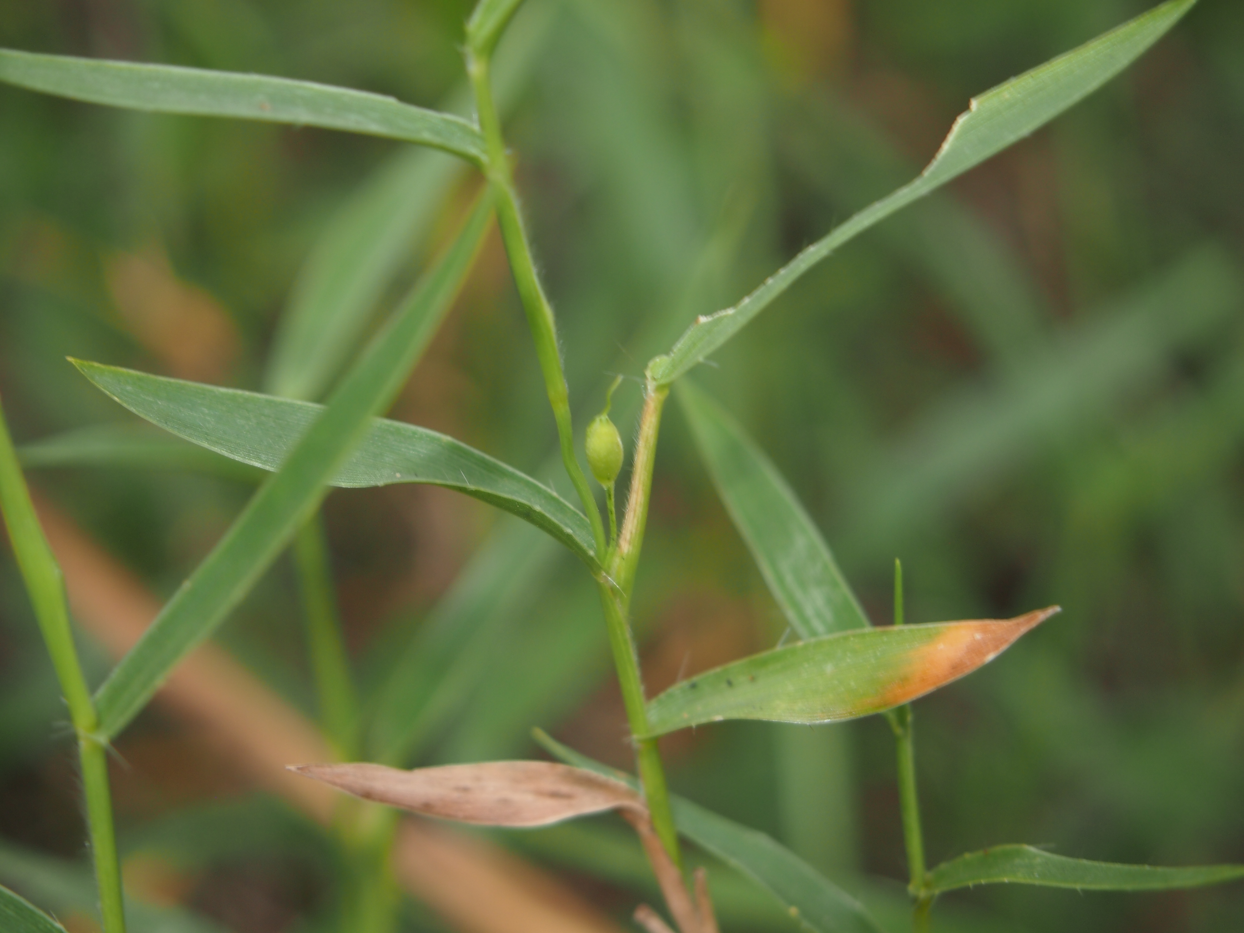 Calyptochloa gracillima axilliary seed, close up